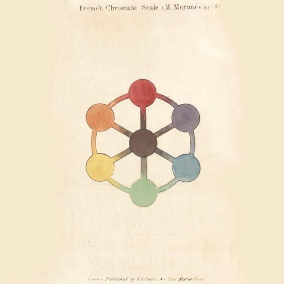 Chromatic Scale features three 'Primitive' colors: yellow, red and blue plus three secondary colors: orange, purple and green. The central color brown represents an admixture of all six colors.